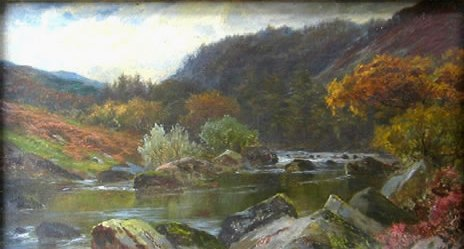 Highland River in Autumn by Louis Bosworth Hurt of Derbyshire